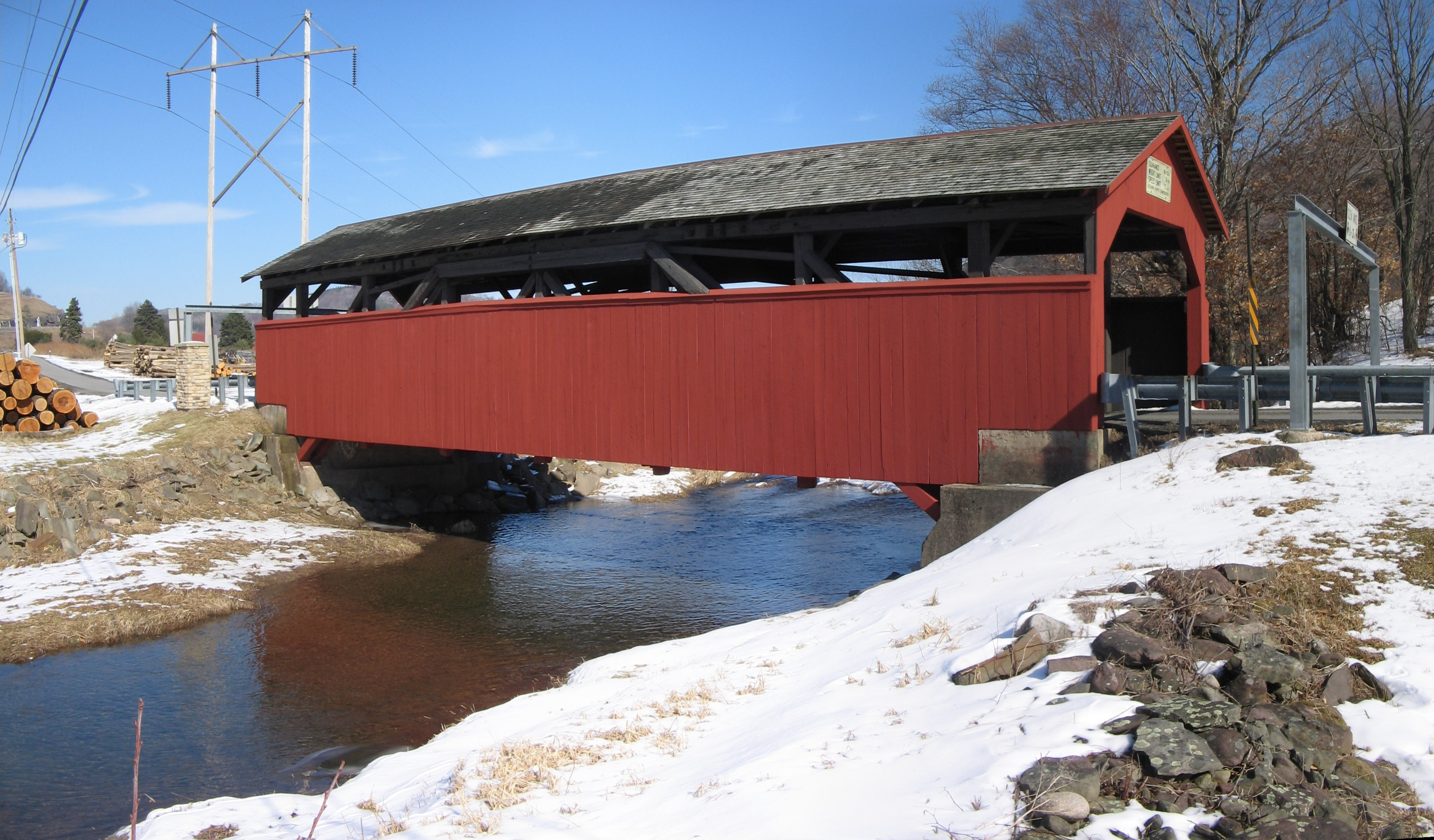 Buttonwood Covered Bridge over Blockhouse Creek in the village of Buttonwood, Jackson Township, Pennsylvania, USA. Bridge built either 1878 or 1898, rehabilitated 1998. On the US National Register of Historic Places. West side and south portal shown.